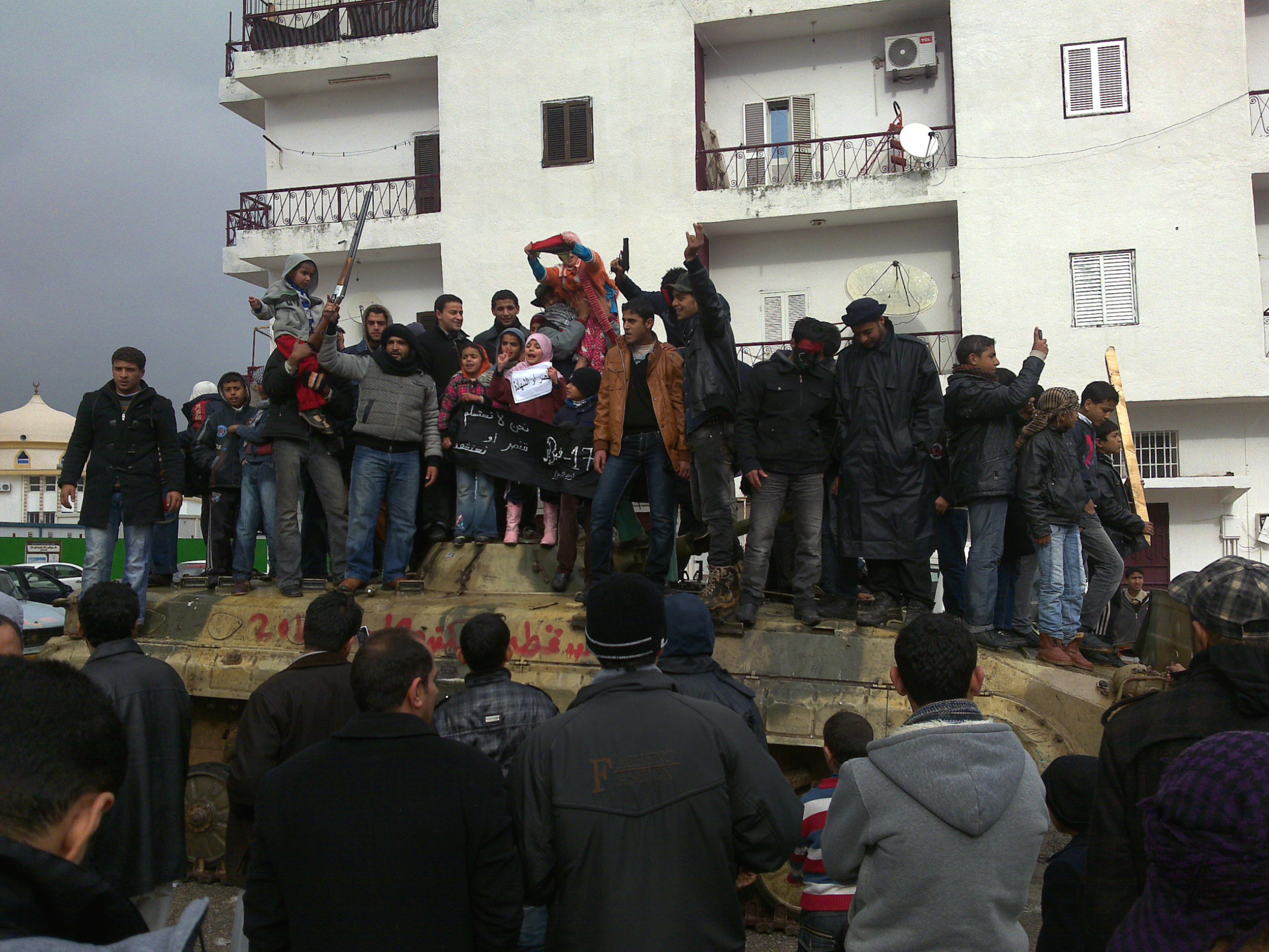 Celebrating the rebels seized the city of Al Bayda on the tank battalions Gaddafi.